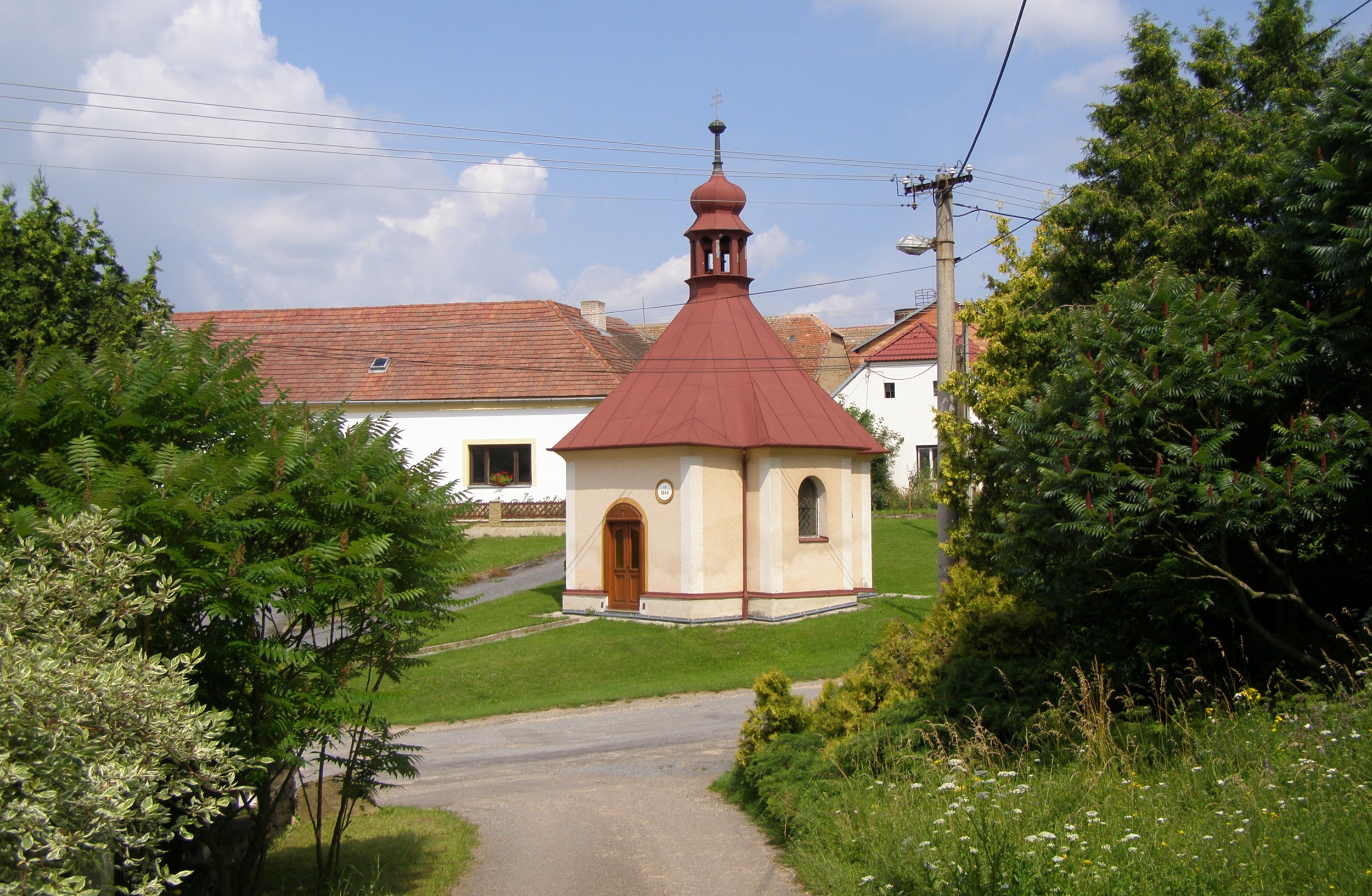 Stařeč-Kracovice. Virgin Mary chapel